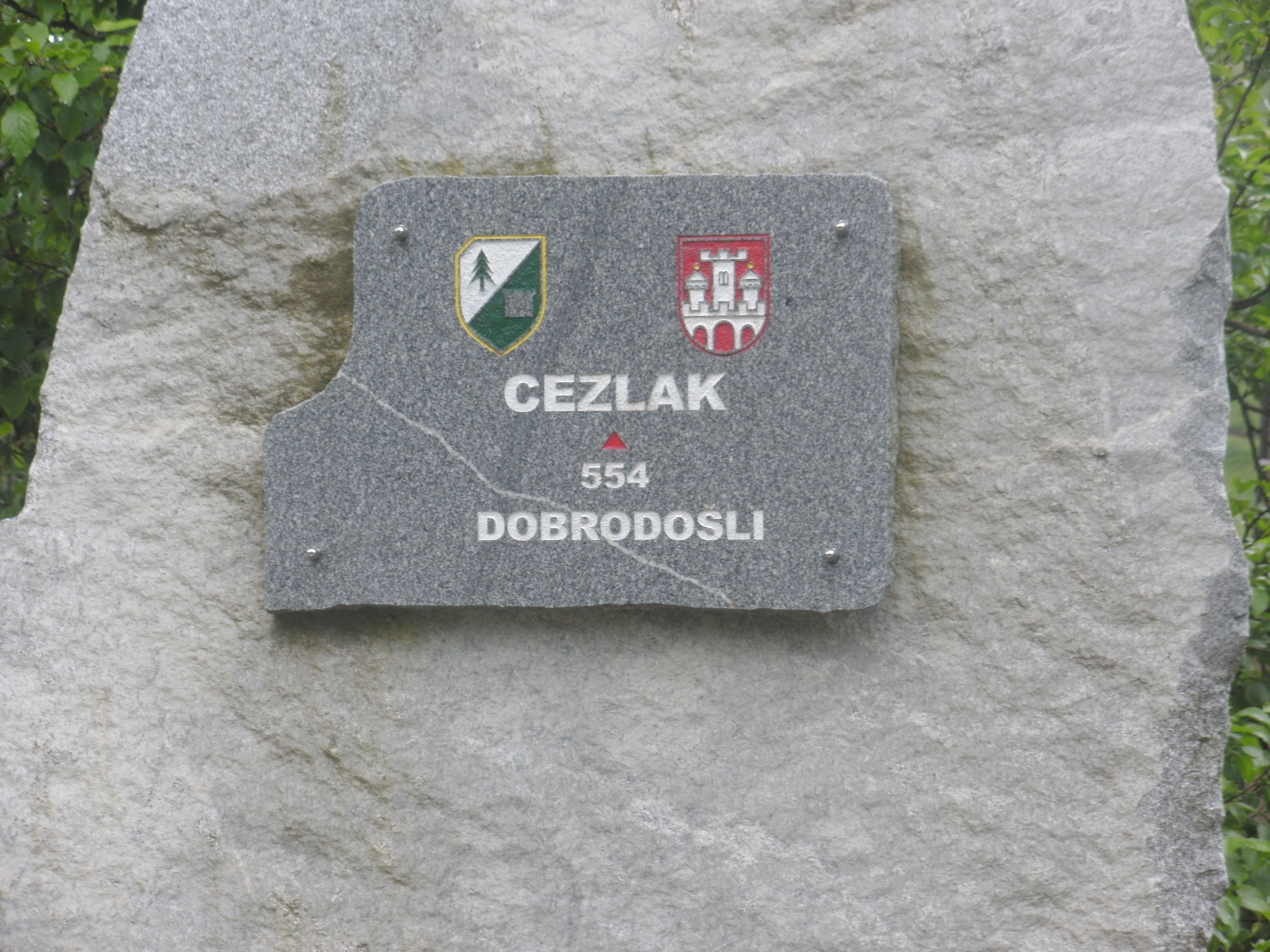 Cezlak Plaque, Slovenia